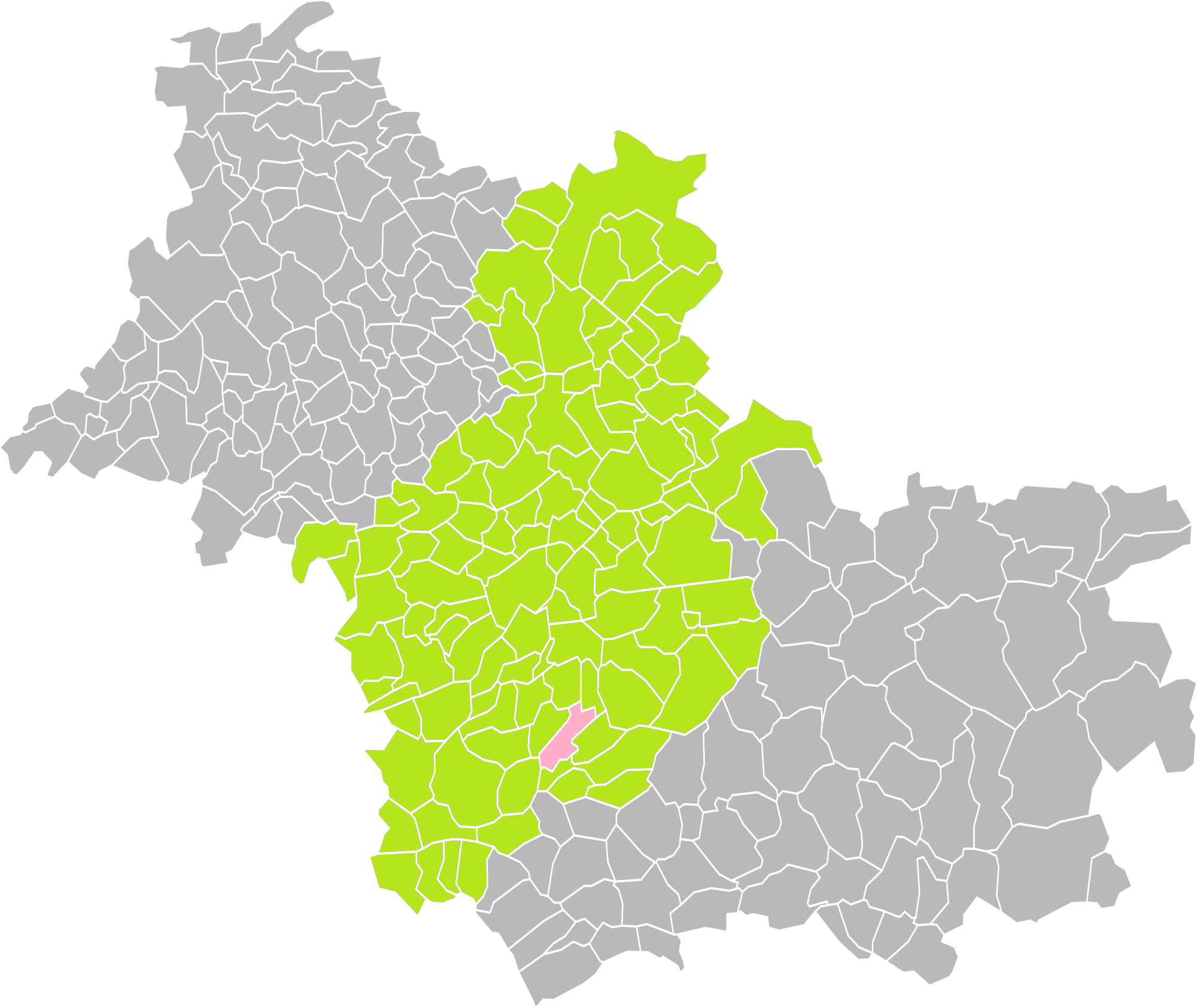 Location of the commune of Feings in the arrondissement of Blois (Loir-et-Cher)